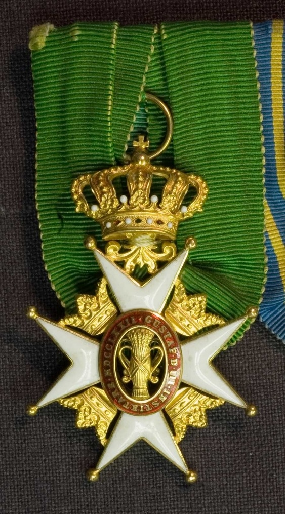 A 1945 Knight 1st Class Cross of the Swedish Order of the Vasa. The Cross belonged to the former Supreme Commander of the Swedish Armed Forces, general Olof Thörnell (1877-1977). It was donated to the Swedish Army Museum by the Thörnell family in 1977.